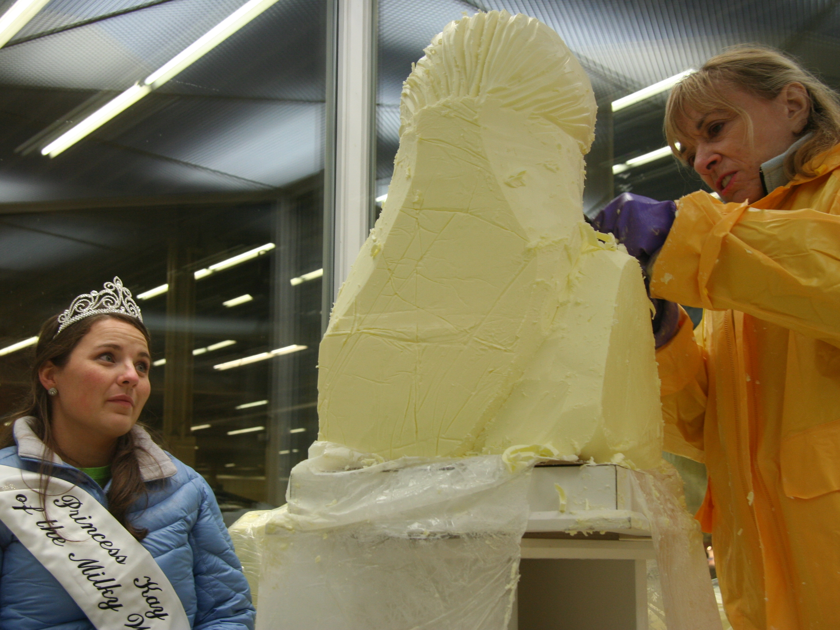 Wearing purple gloves and a plastic raincoat, Linda Christensen works on a butter bust of Katie Miron, the 57th Princess Kay of the Milky Way, in a refrigerated glass studio in the Dairy Building at the Minnesota State Fair. The large uncarved block of butter is only roughly shaped at the stage seen here; the final form was a detailed likeness of the seated woman.